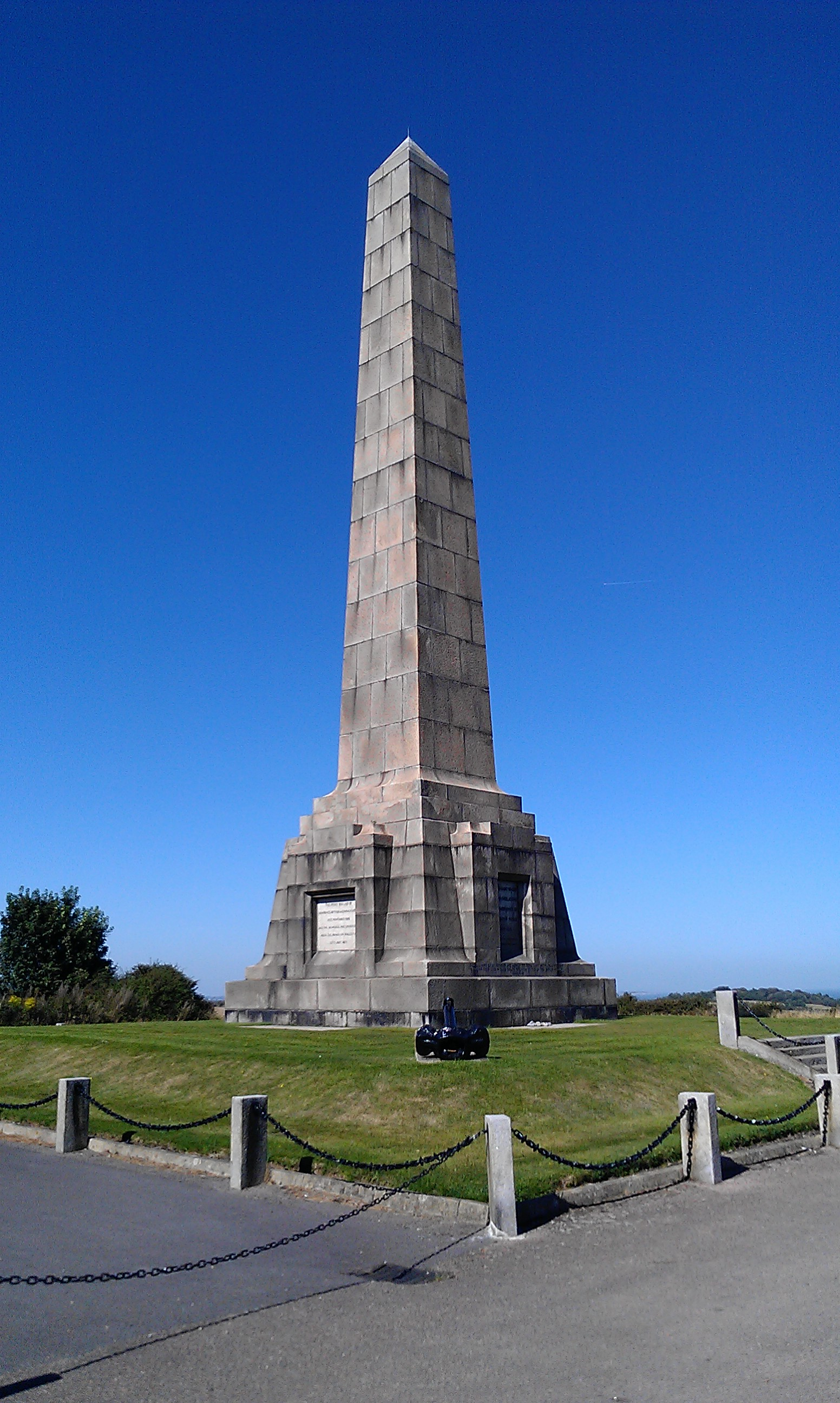 Twentieth-century monument to the Dover Patrol, located in Kent, south-east England.